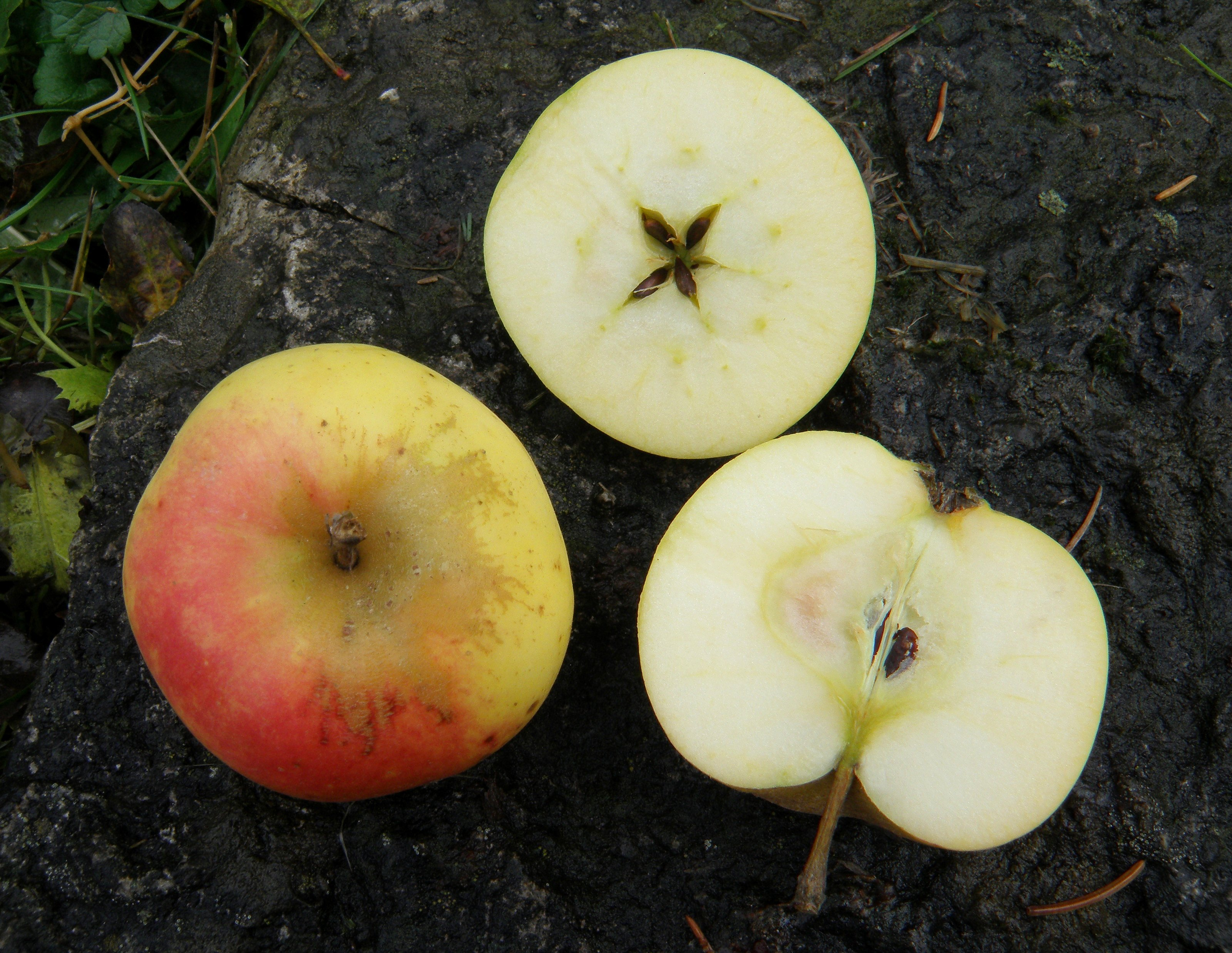 Liivi kuldrenett Goldreinette, Golden reinette, Reinette dorée, Złota reneta, Princesse Noble, English Pippin, Reinette jaune